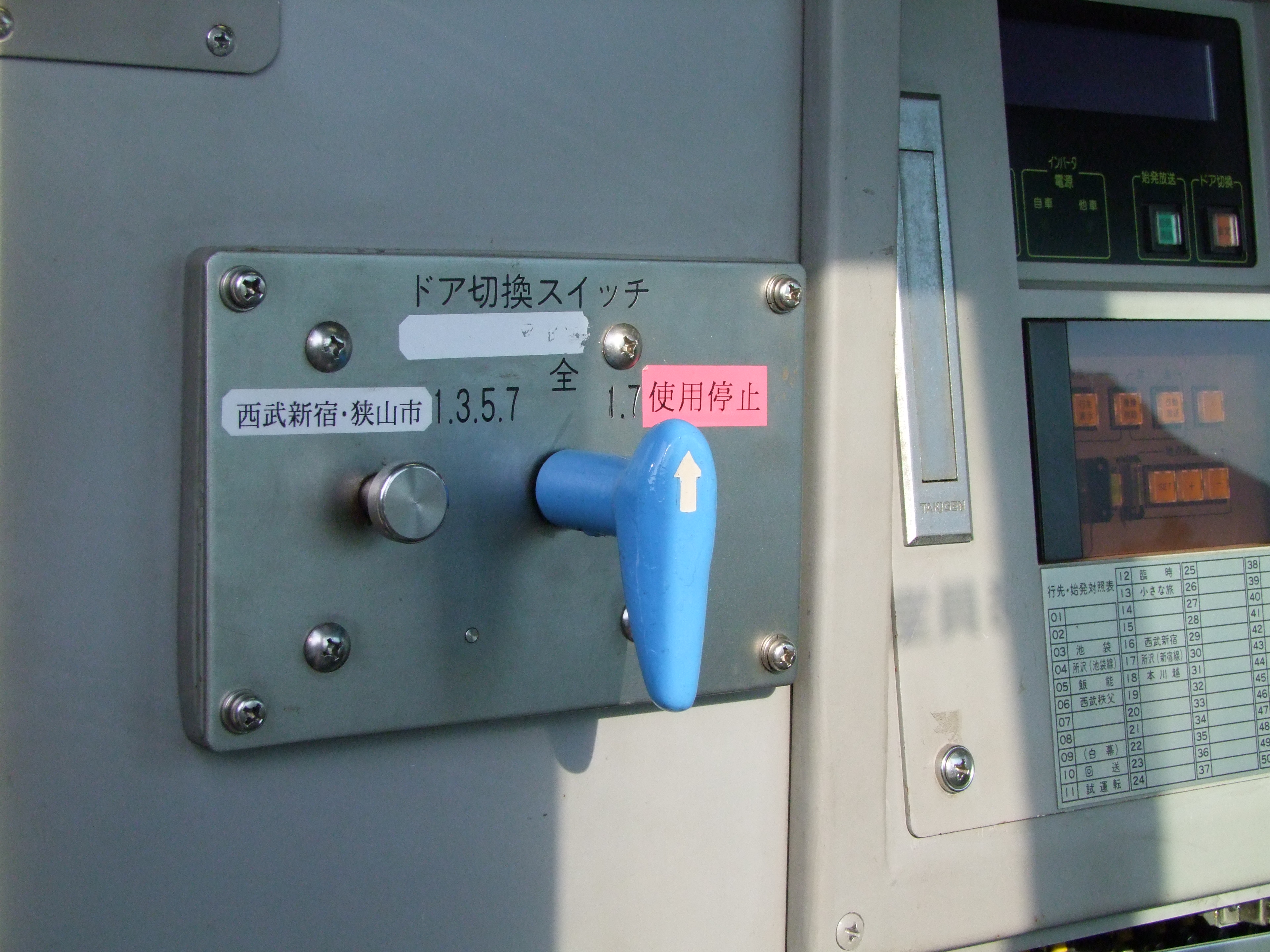 Door opening mode select switch of Seibu 10000 series, taken at Seibu-Chichibu Station.